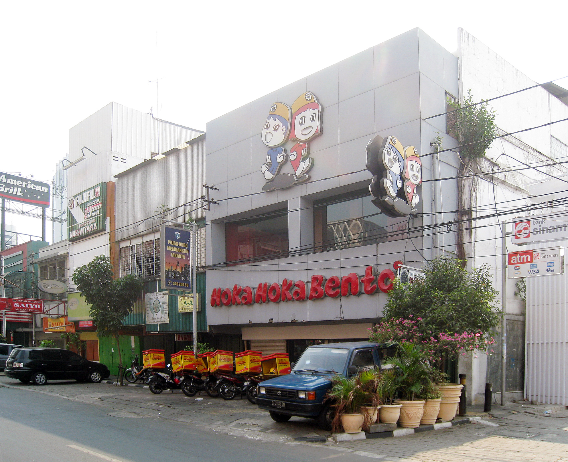 Hoka Hoka Bento Japanese Fastfood Restaurant in Jalan Sabang, Central Jakarta.